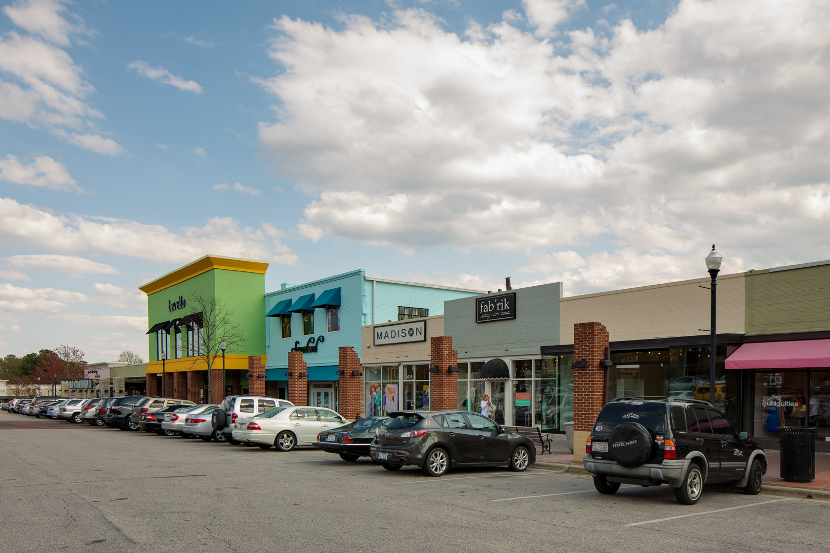 Image of a storefront at Cameron Village.